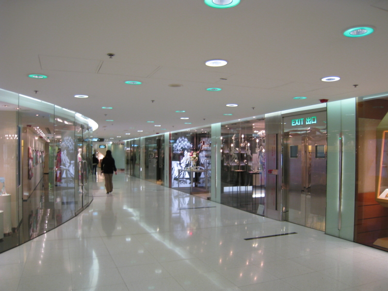 HK Princes Building Shopping Arcade 太子大廈購物商場